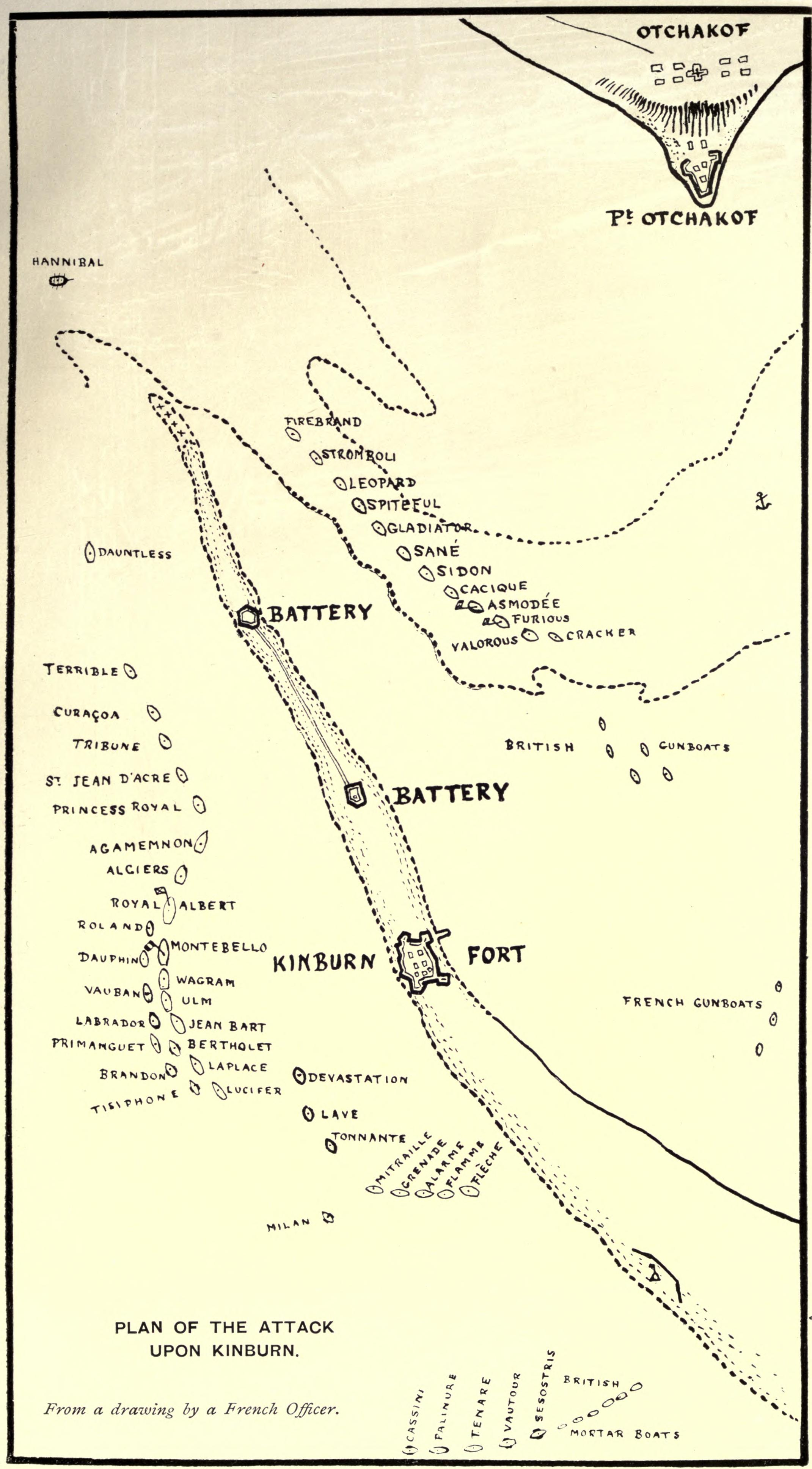 Plan of the attack on Kinburn.